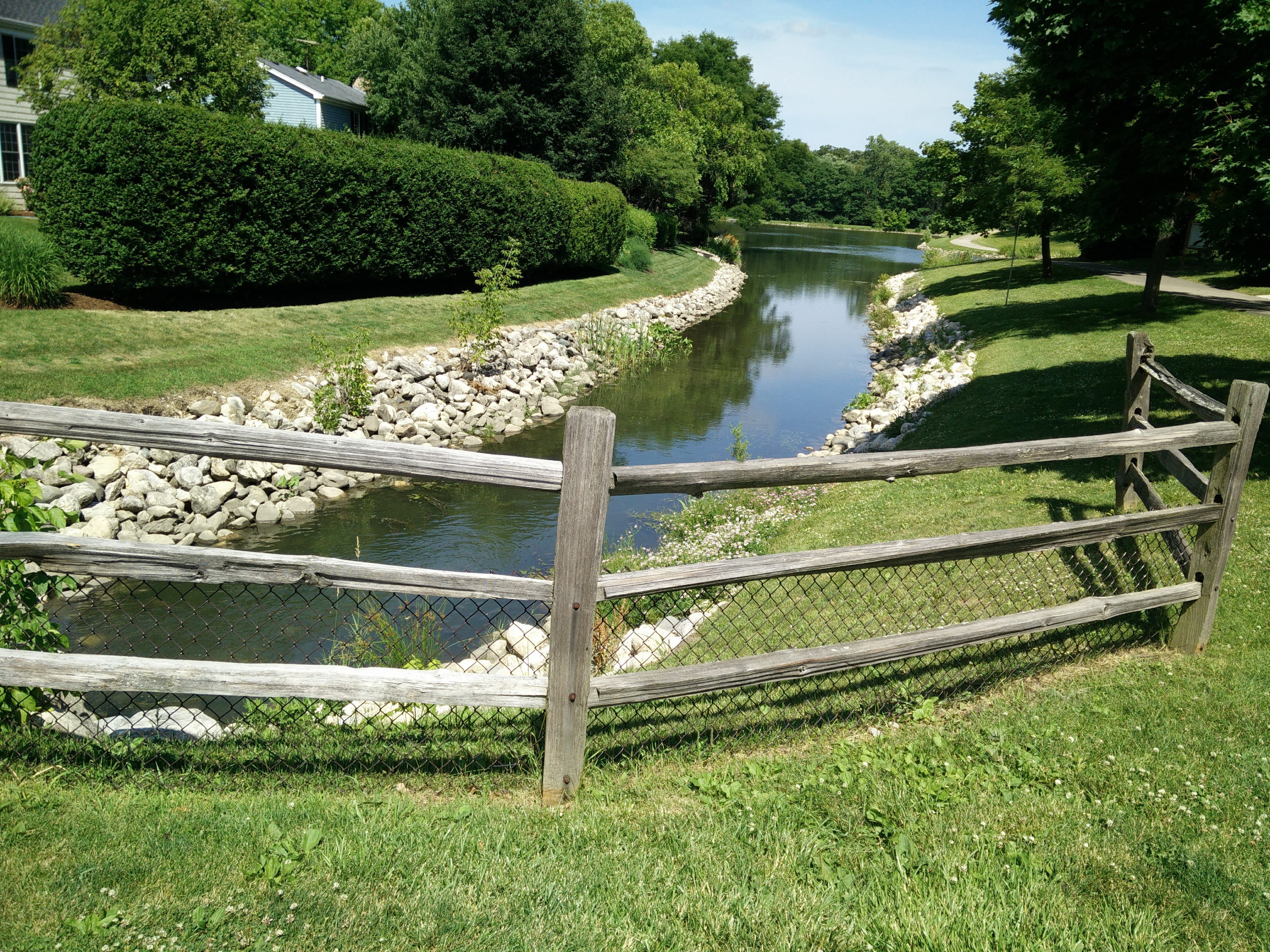 Cottonwood Park in Rolling Meadows, Illinois viewed from behind its fence